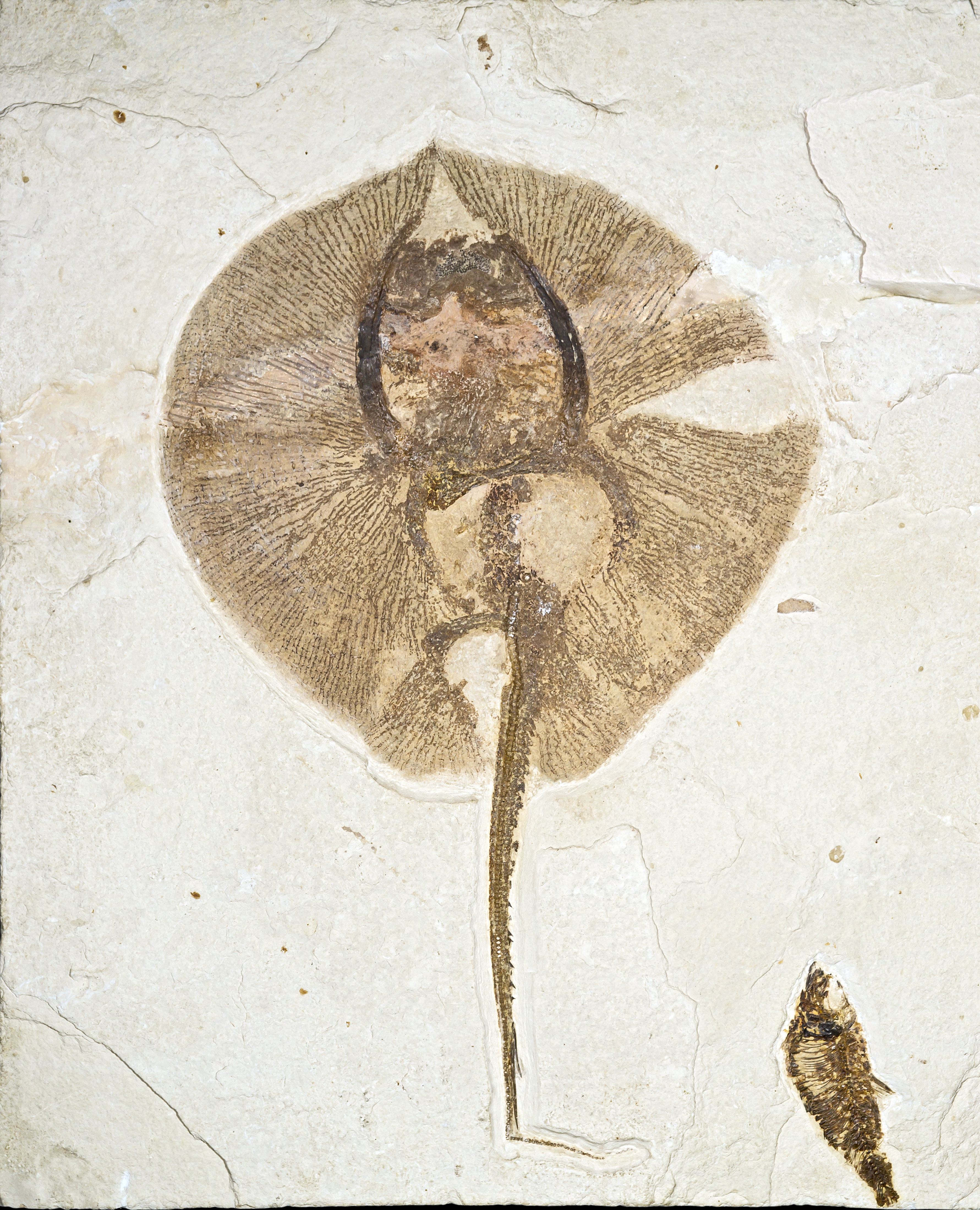 Heliobatis radians Stage : Eocene from 55,8 ± 0,2 Ma to 33,9 ± 0,1 Ma (million years ago) Locality: Fossil-Lake, Kemmerer, Wyoming USA Size : : 39.5 x 33.5 x 3 cm